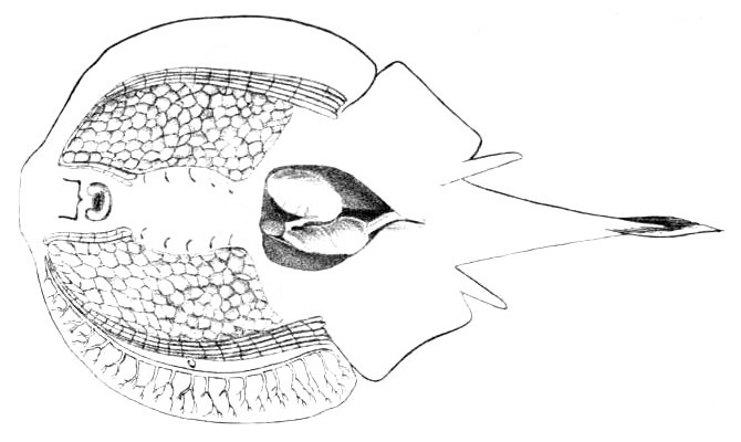 Selected anatomy of the finless sleeper ray (Temera hardwickii)